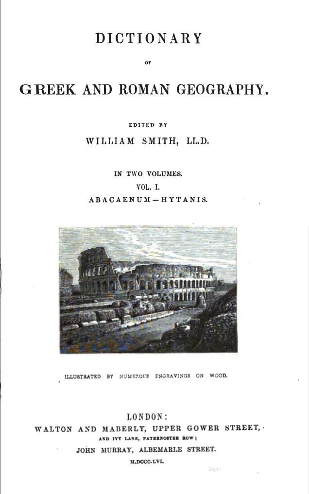 Title page from the 1856 edition of Dictionary of Greek and Roman Geography. Image stitched together from Google Books